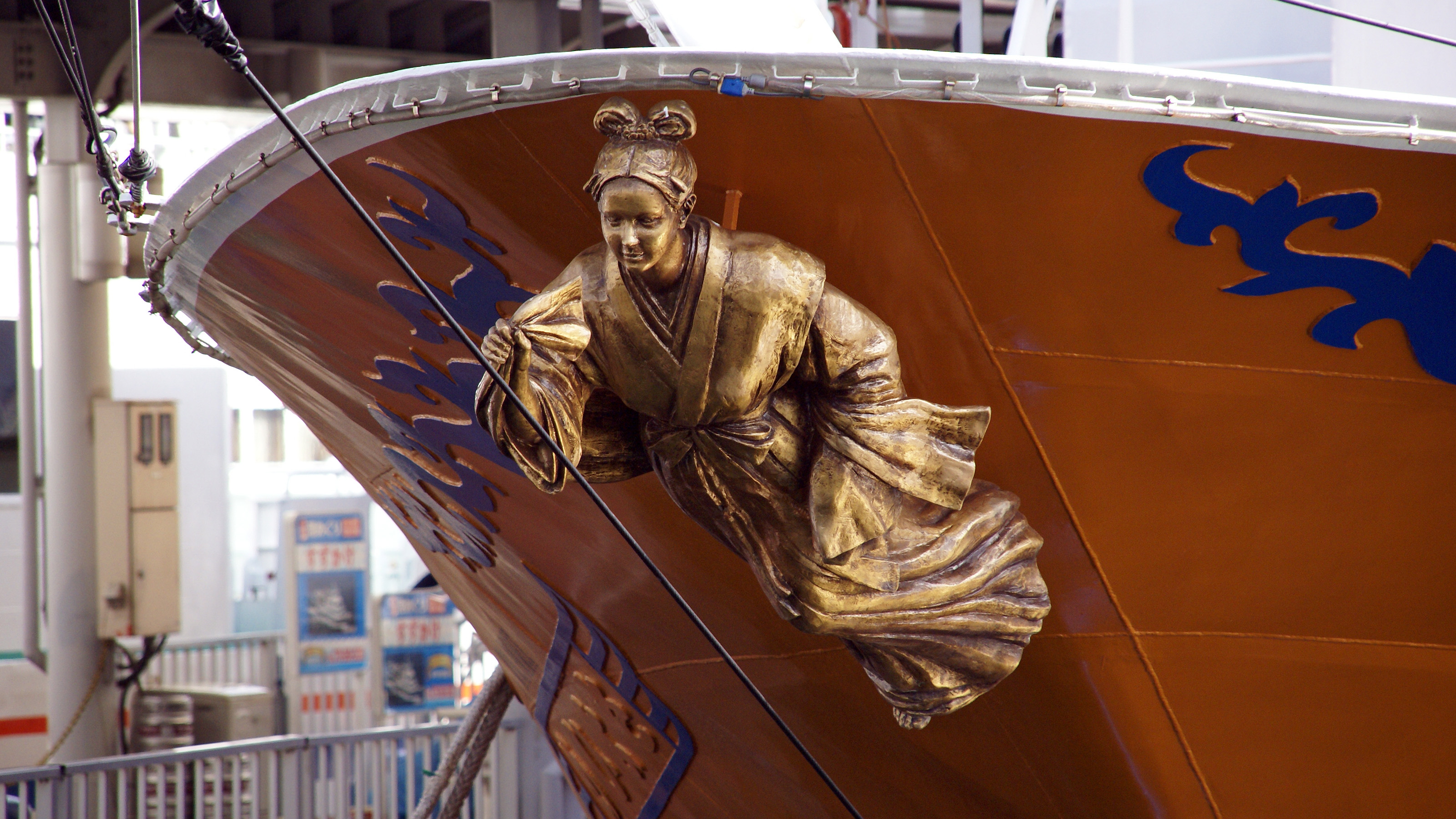 "Royal Prince" who anchors at "Nakatottei Central Terminal" of the Kobe harbor ( Kobe, Hyogo, Japan)